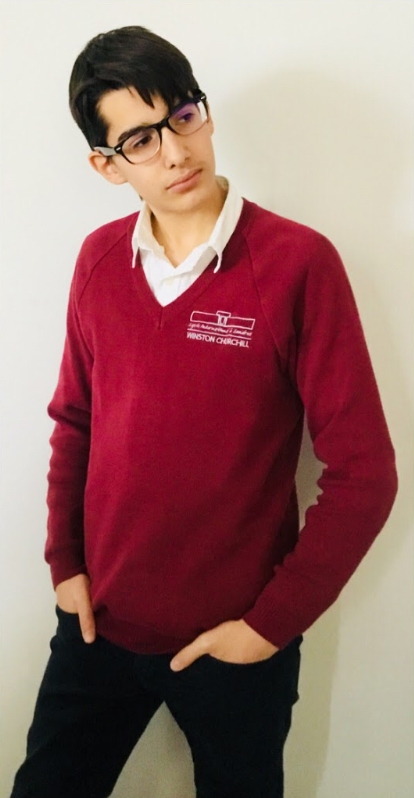 This is a LIL student wearing the uniform of the school